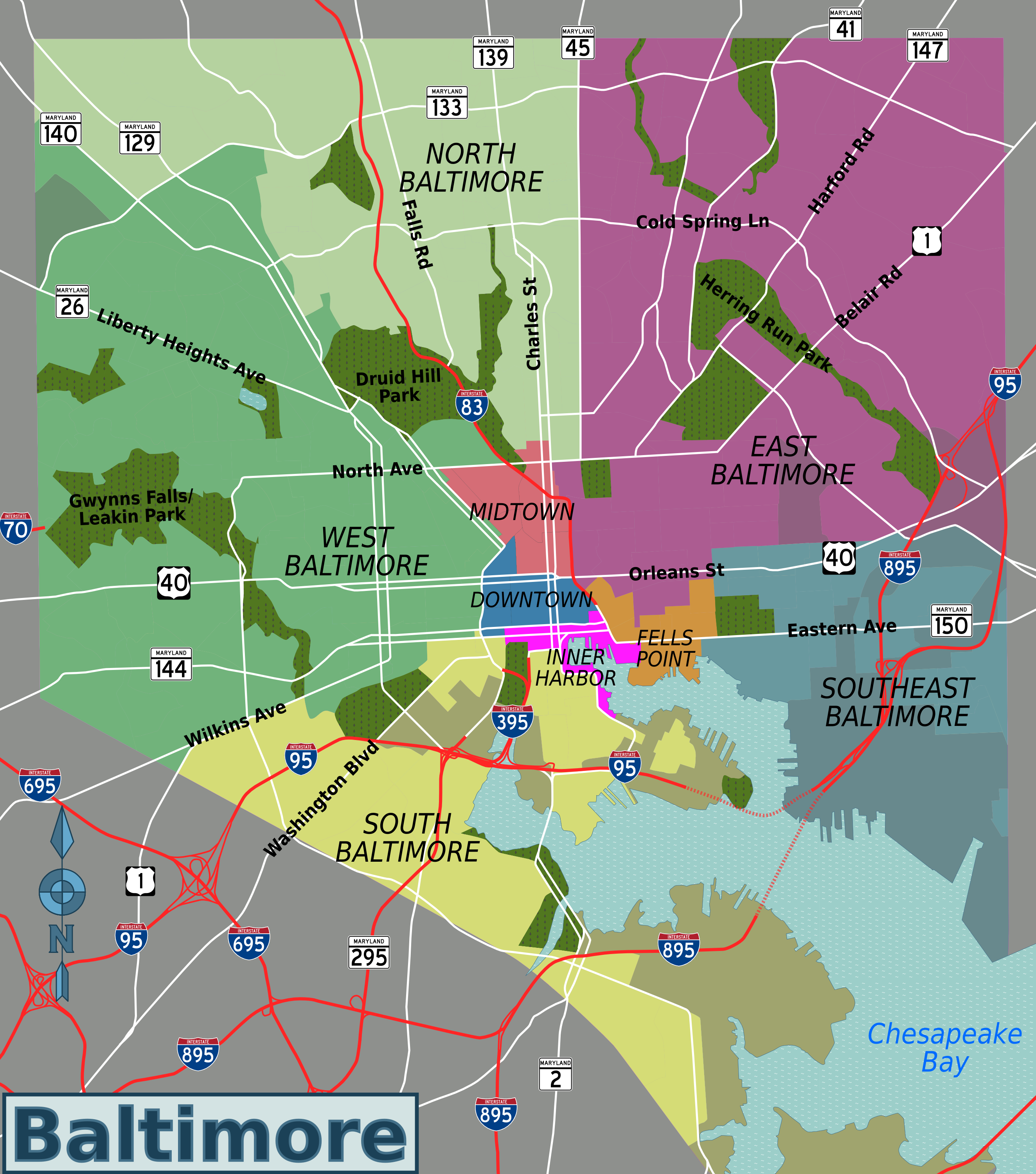 Districts map, individual neighborhoods outlined to the street level, Baltimore Map of: Baltimore¤.